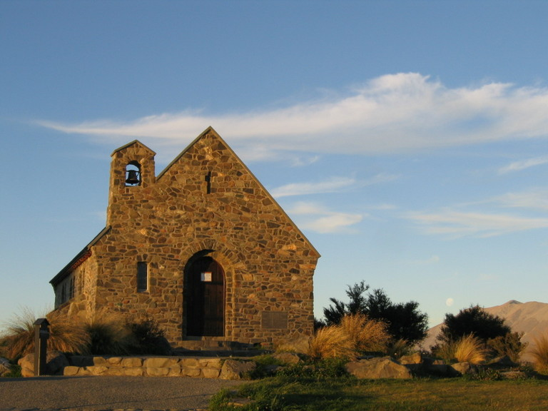 I took this image in February 2005 at Lake Tekapo, New Zealand. New Zealand Historic Places Trust Register number: 311.